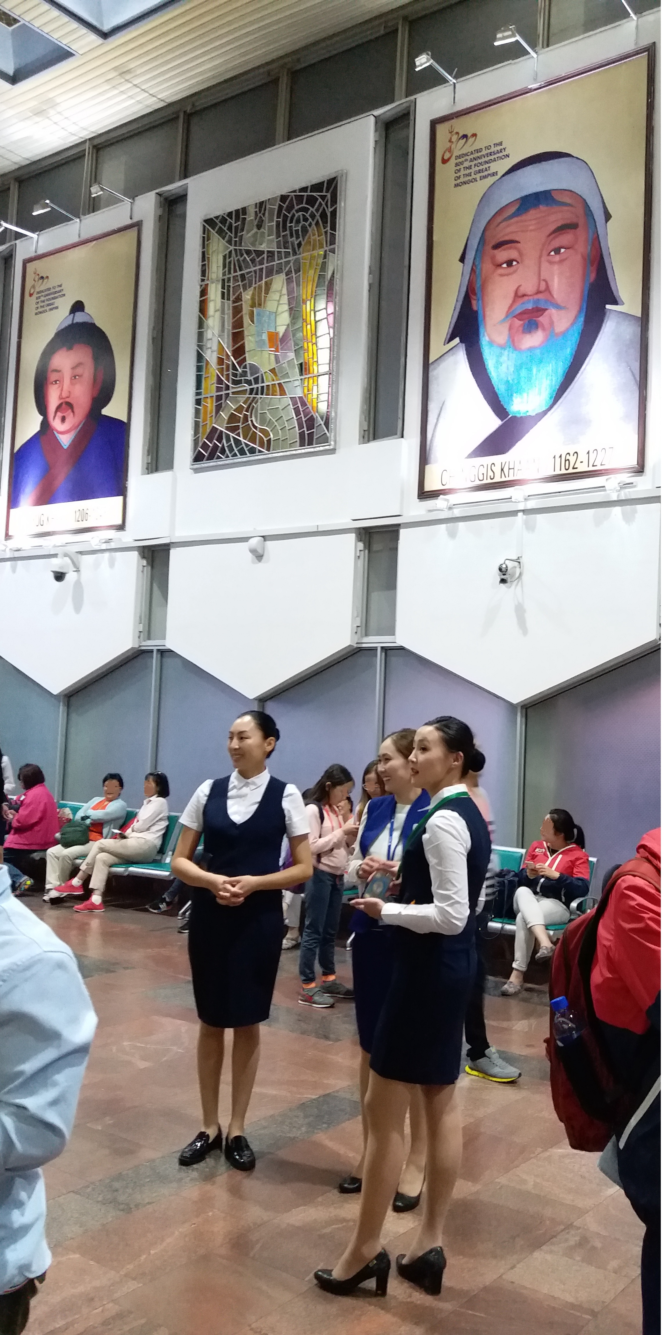 This photo has been taken in the country: Mongolia